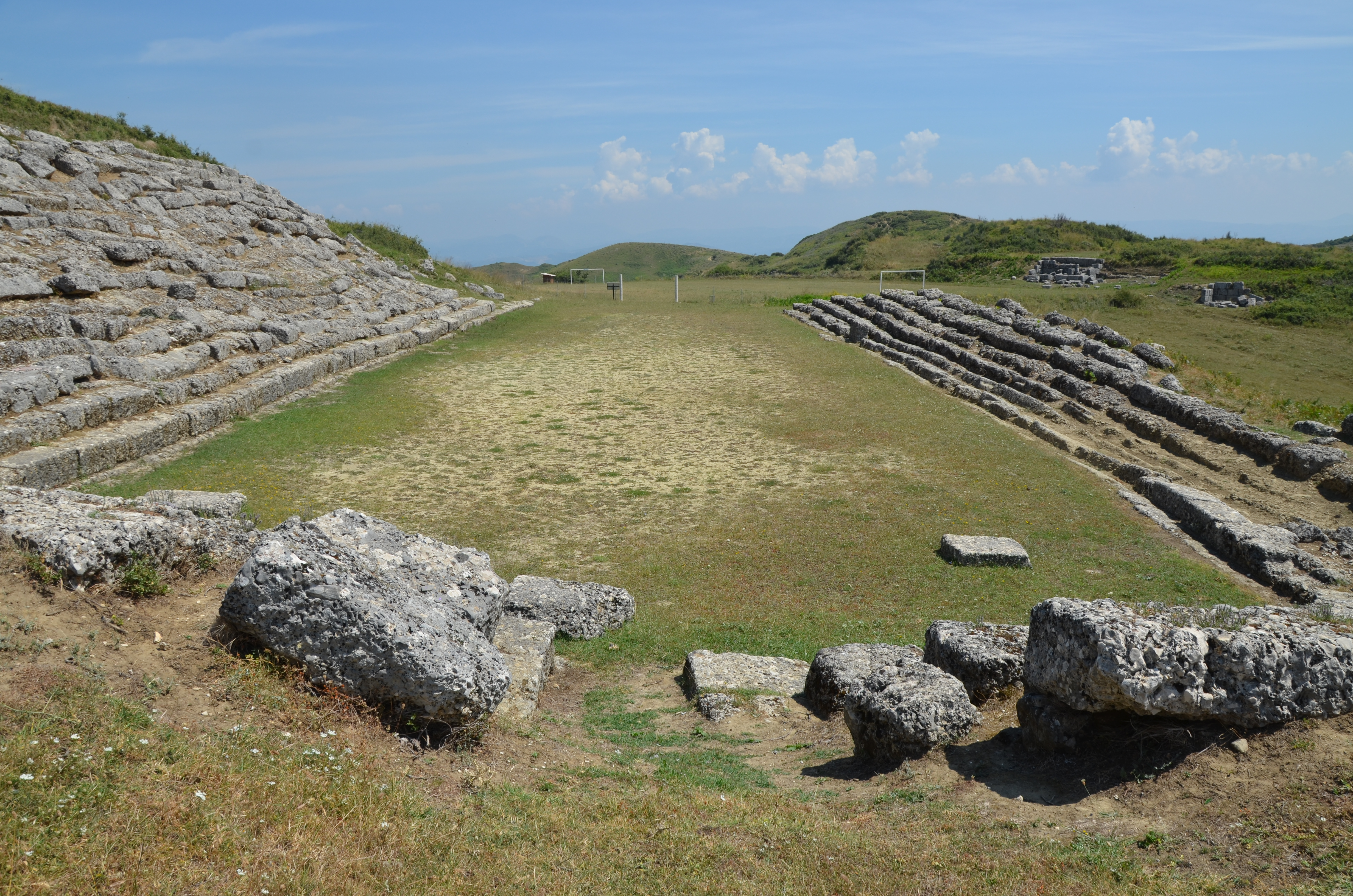 The stadium is 60 m long and 12.5 m wide. The stadium has 17 steps on one side and 8 on the other and could accommodate about 4000 people. The Stadium is about 100m below the site to the south-east. Excavations have revealed that it was used for athletic contests including running races, boxing, javelin and discus throwing. The stadium was constructed in the 3rd century BC and remained in use until the 3rd century AD.